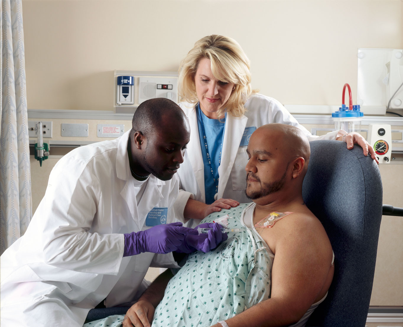 Title Patient Receives Chemotherapy Description A Hispanic male patient receives Chemotherapy from a African-American Nurse through a port that is placed in his chest area. A caucasian female nurse looks on. Topics/Categories Locations -- Clinic/Hospital People -- Adult People -- Health Professional and Patient Treatment -- Chemotherapy Type Color, Photo Source National Cancer Institute